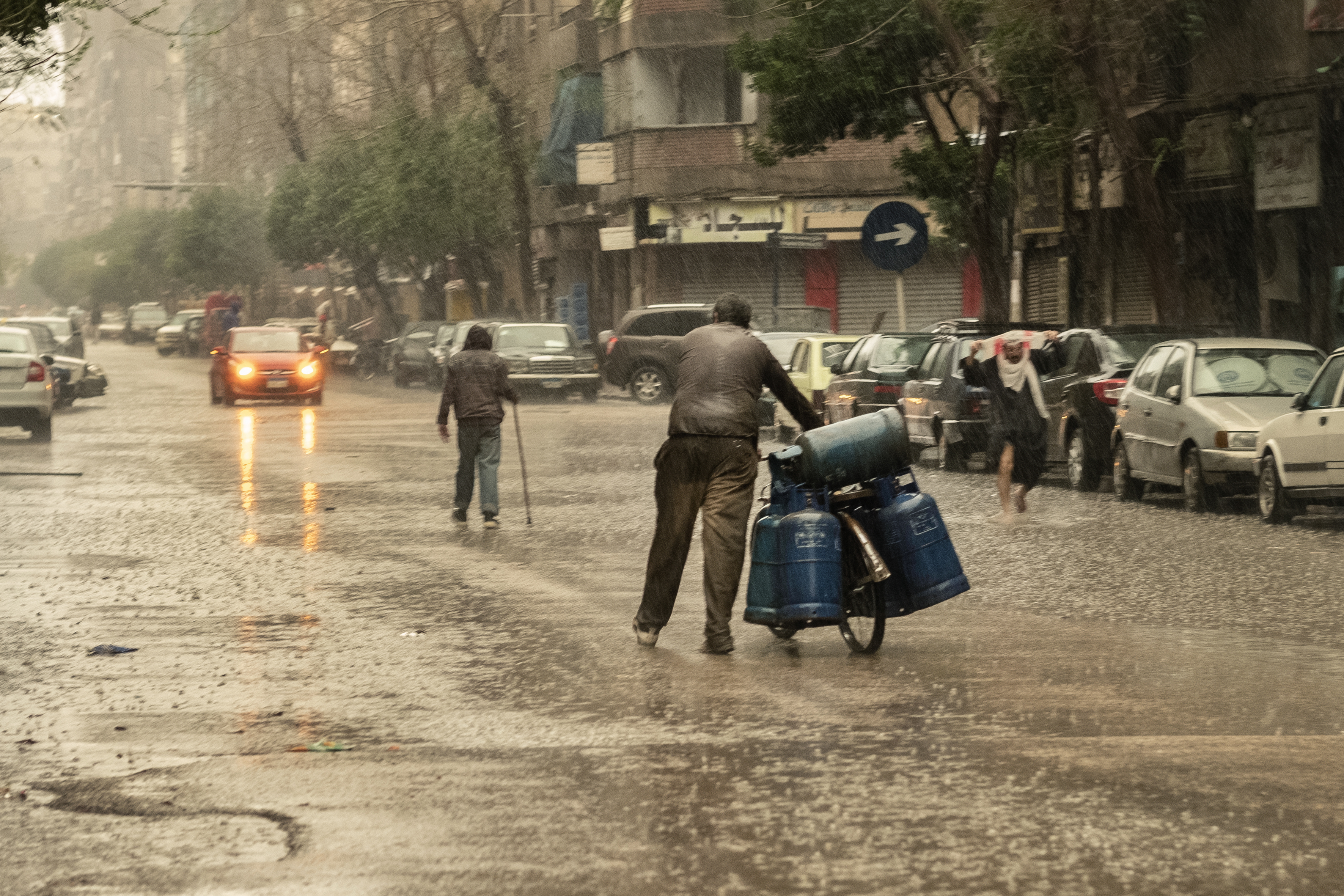 during the hard rainy day man walking into the rain trying to get some money from his gas tubes This is an image with the theme "Africa on the Move or Transport" from: Egypt